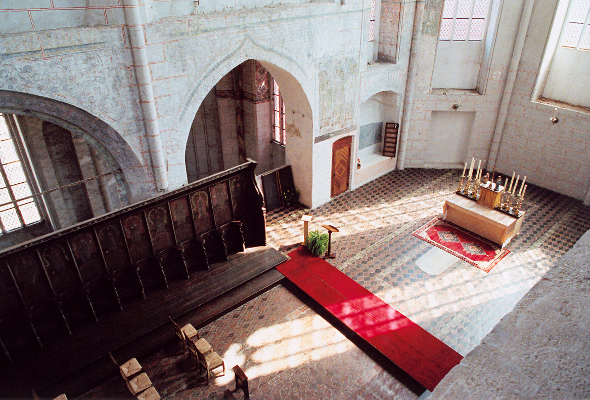 Highchoir in St. Catherine Church (Lübeck). Own work, June 2007, MD 24/2,8 on Superia 800.